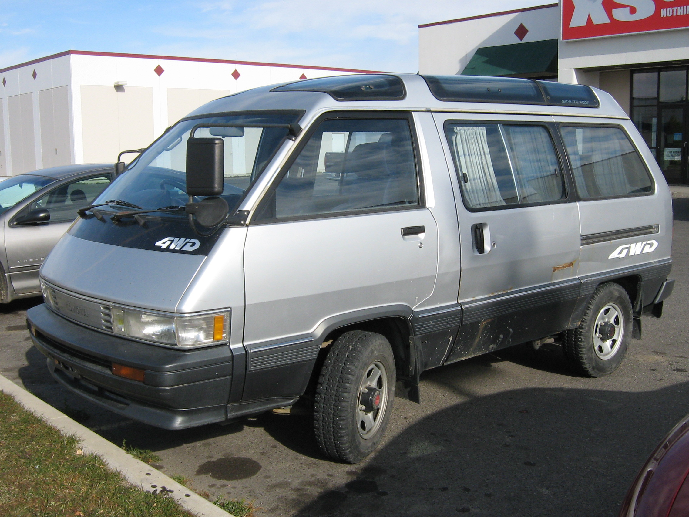 An import from Japan this one with the skylight covered roof. Quite a bit more rust than the usual imports.